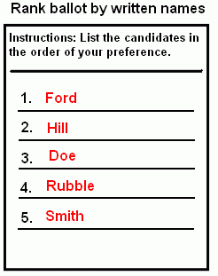 Rank ballot with hand-written names